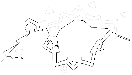 Citadel of Liege in 1715.